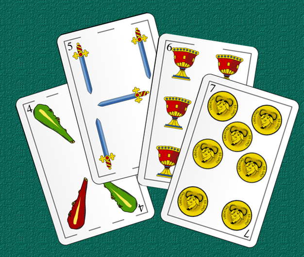 Example of a bad combination of cards in the Spanish card game "el mus": 4, 5, 6, 7 or "el tio perete"